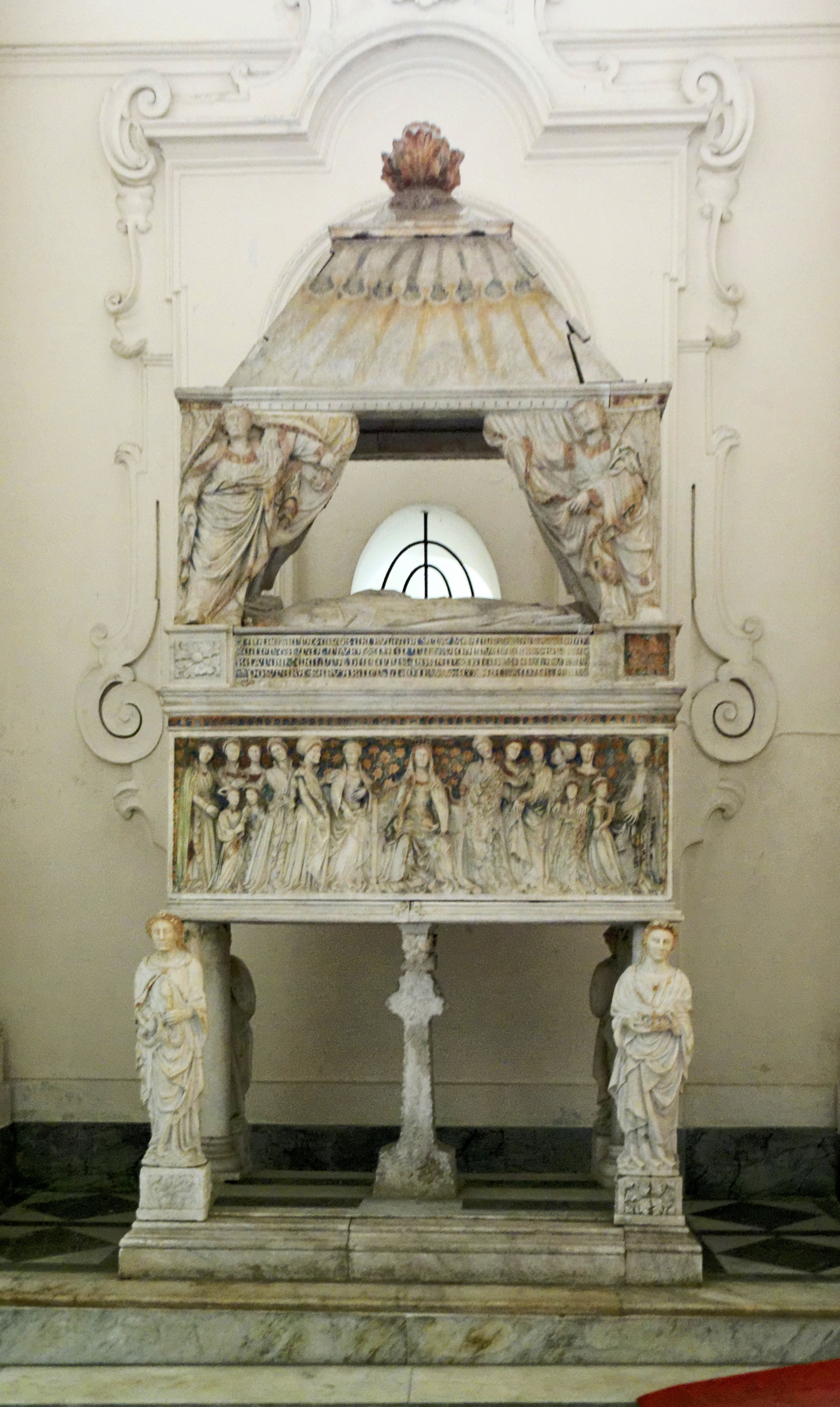 Salerno, Cathedral, Grave of queen Margaret of Durazzo